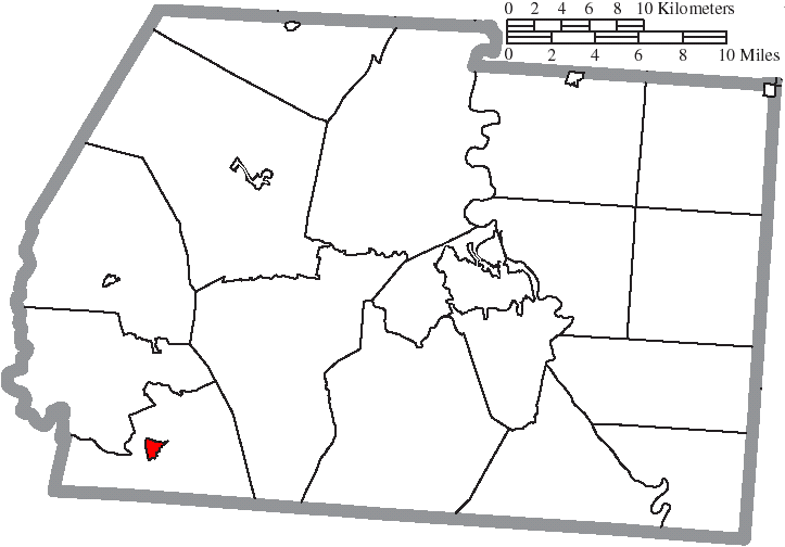 Map of the municipal and township boundaries of Ross County, Ohio, United States, as of the 2000 census, with the location of the village of Bainbridge highlighted. Township borders are shown only in unincorporated areas in order to differentiate incorporated and unincorporated areas more clearly.